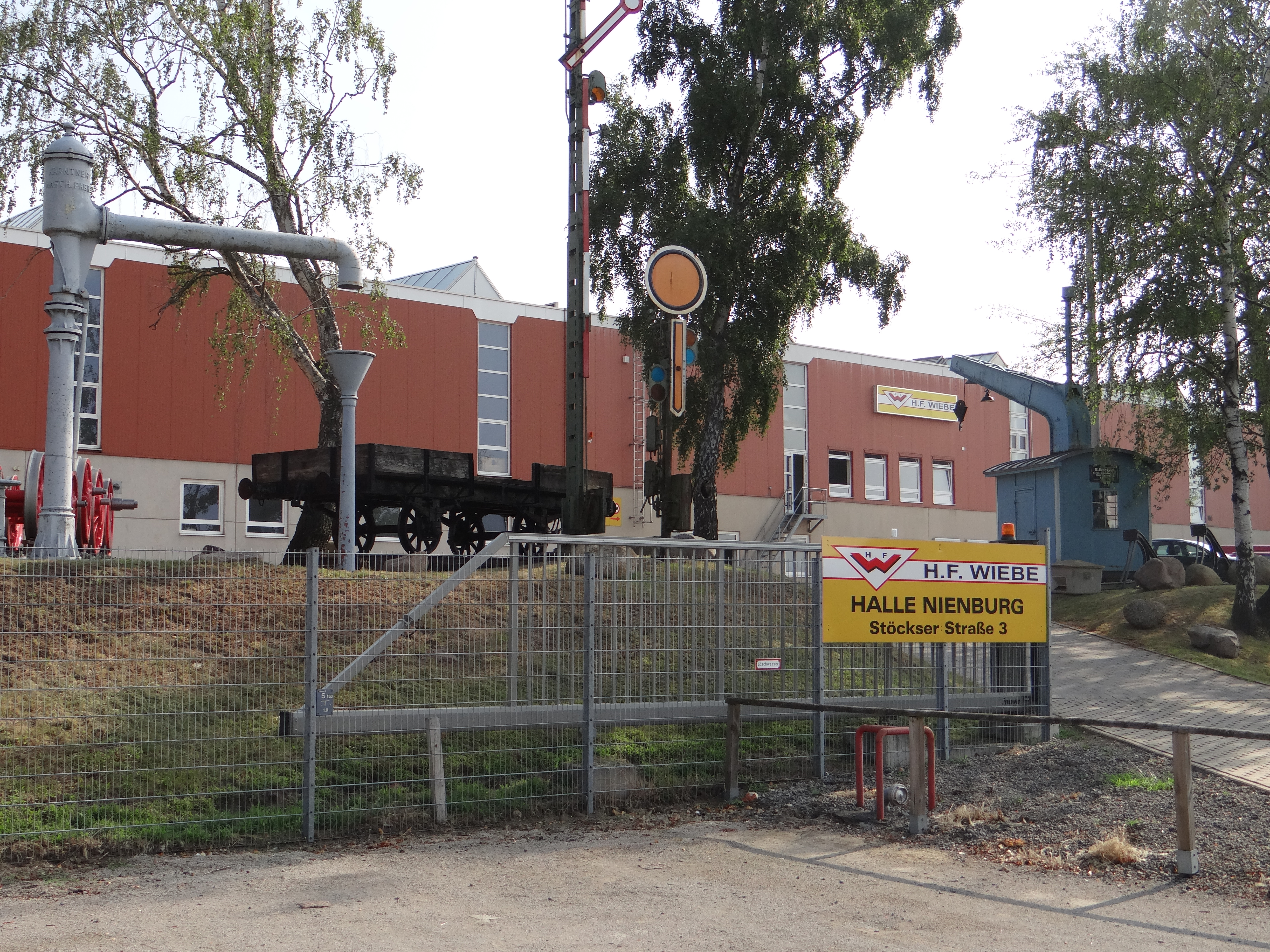 H.F. Wiebe in Nienburg/Weser, Germany.